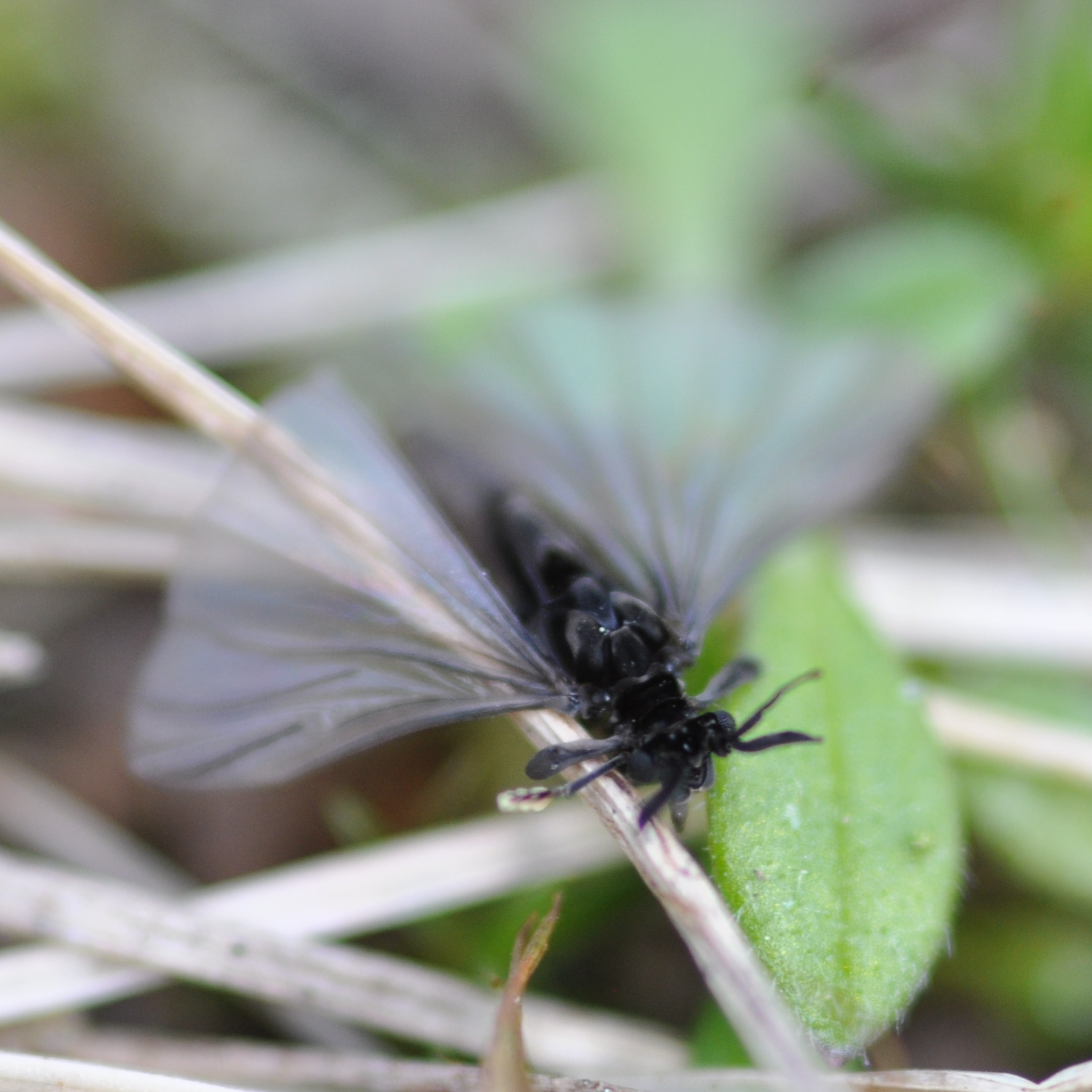 Twisted-winged parasite Stylops melittae male in Bahrenfeld, Hamburg.